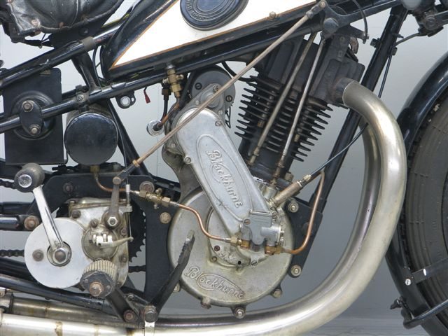 1928 motorcycle from the Gloucester-based Cotton factory with a Blackburne 500 cc OHV engine. See also File:Cotton M25 Blackburne 500 cc OHV 1928.jpg.